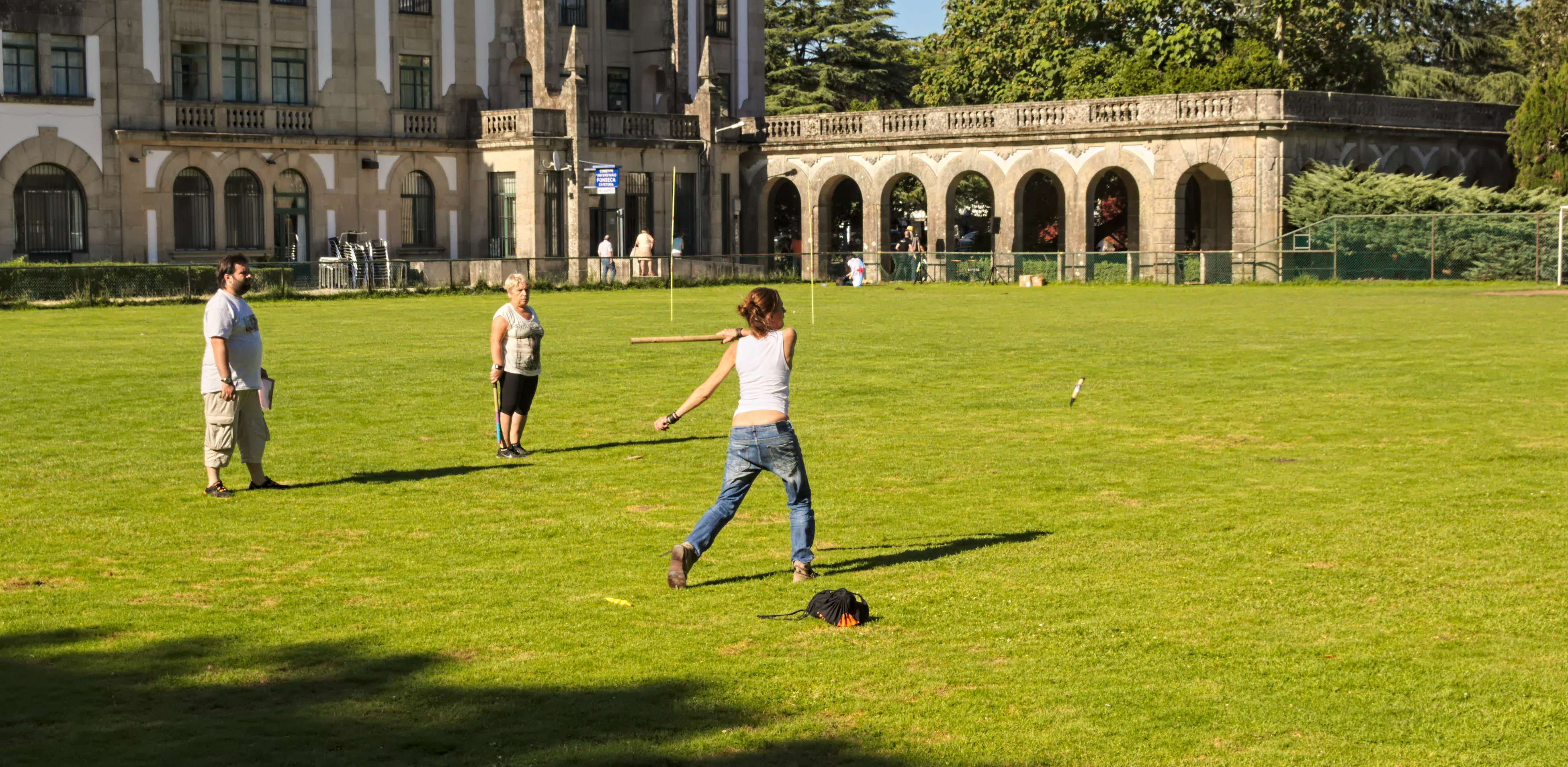 Game of billarda in Santiago de Compostela, Galicia, Spain.